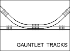 Icon